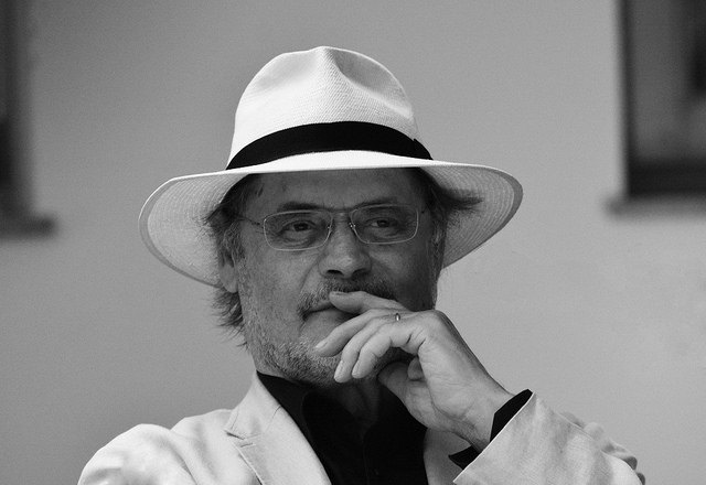 Joseph Zoderer